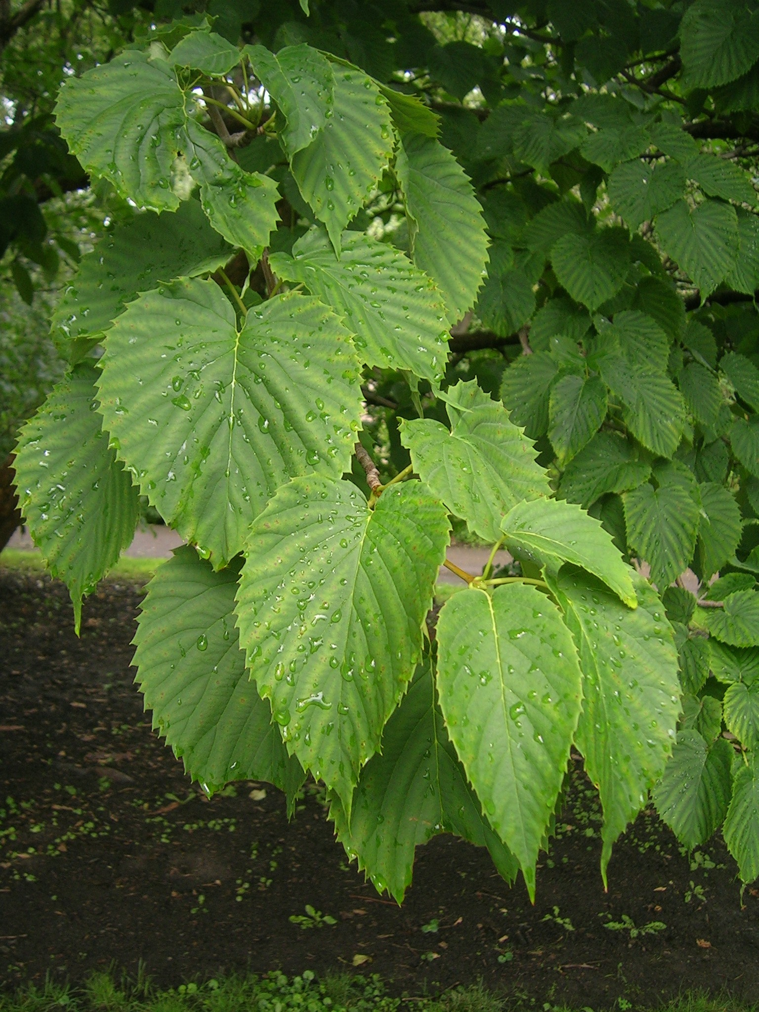 Davidia involucrata from Oslo Botanical Garden